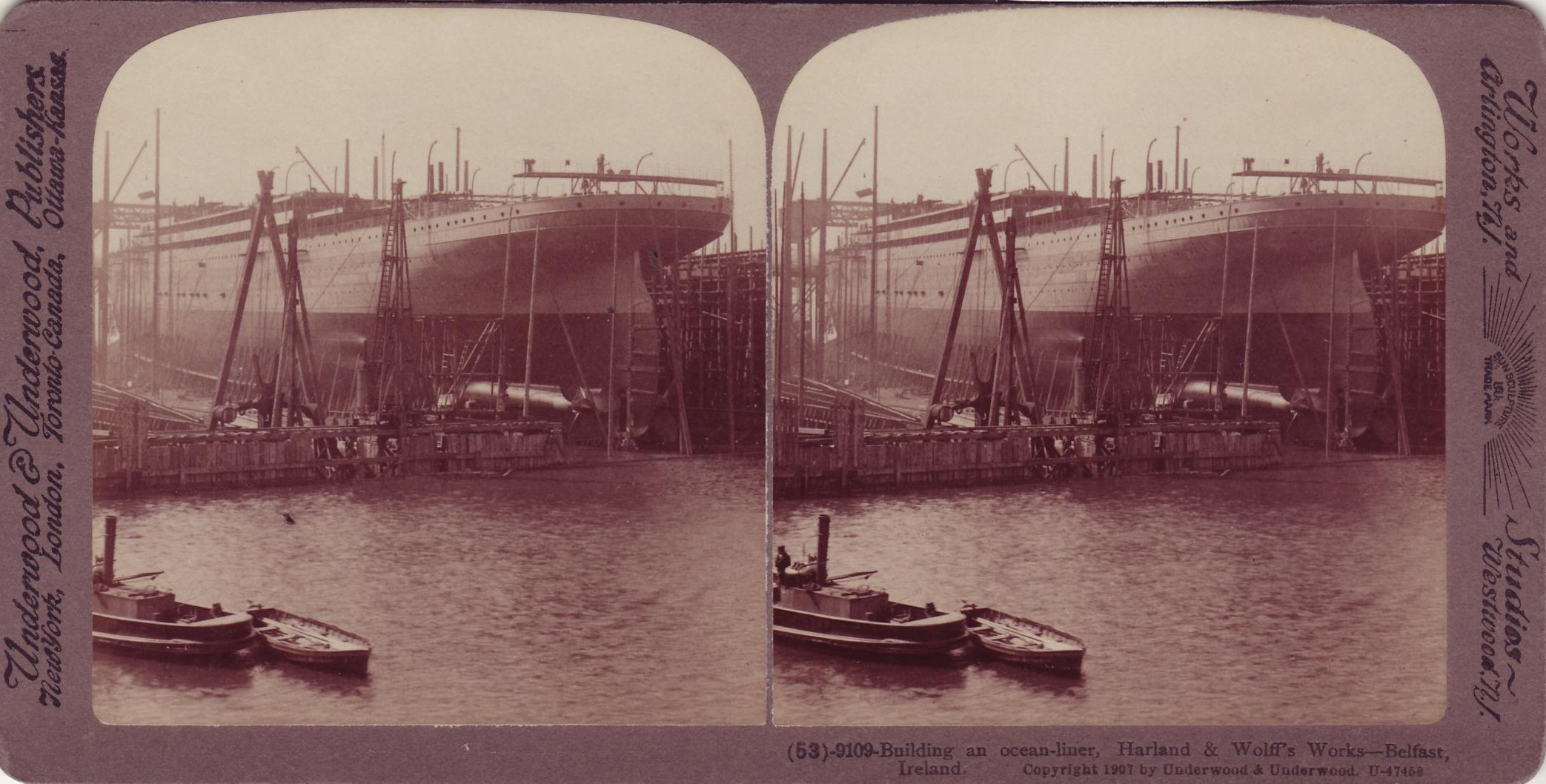 Belfast's Harland and Wolff Shipyard during construction of the RMS Adriatic Copyright 1907. Underwood and UnderwoodNow in public domain.Taken from